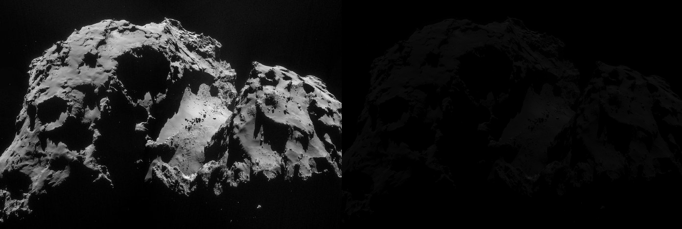 Four-image NAVCAM mosaic of Comet 67P/Churyumov-Gerasimenko, using images taken on 24 September 2014 when Rosetta was 28.5 km from the comet. On the left, the contrast was enhanced by setting the darkest pixels as black and the brightest ones as white ; on the right, the intensities were scaled so that the mean brightness of fully illuminated regions of the comet is around 4%.